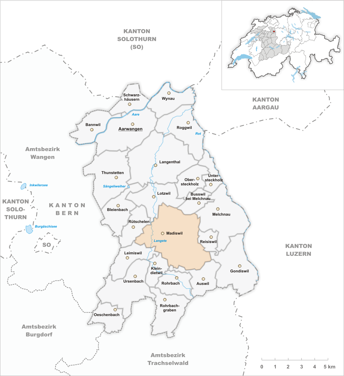 Municipality Madiswil until 2007